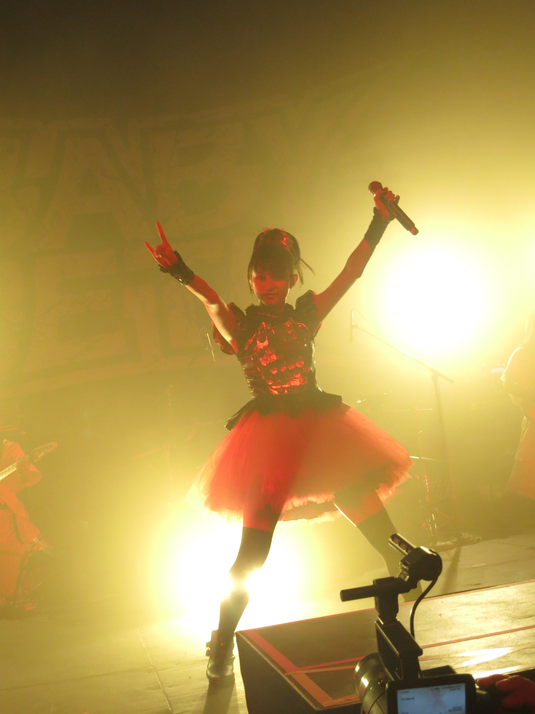 Babymetal performs live at The Fonda Theatre in Los Angeles, CA, USA.